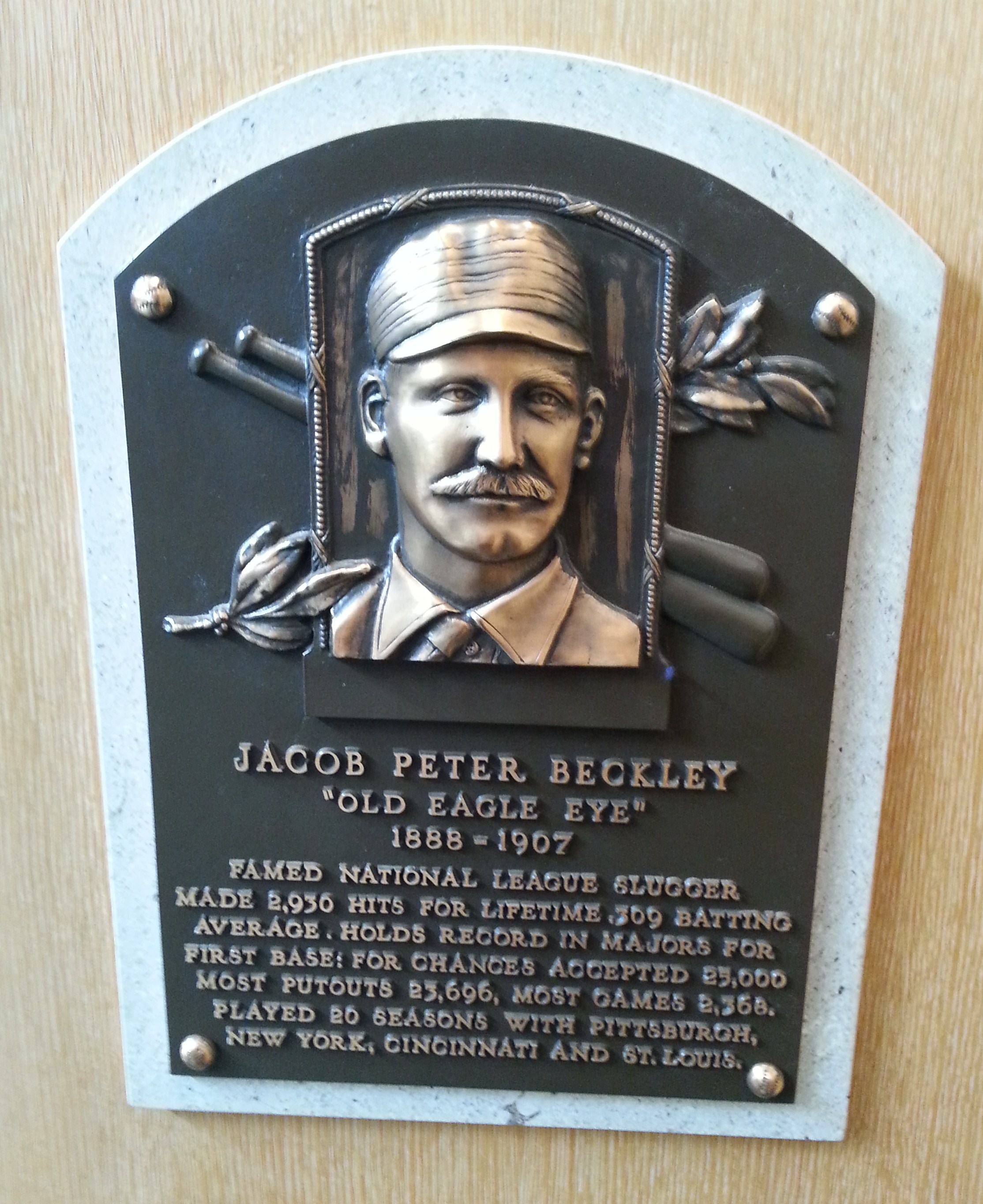 Jake Beckley plaque in the National Baseball Hall of Fame